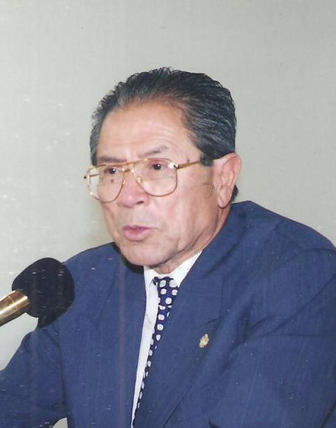 El Dr. Jesús Kumate Rodríguez, miembro del Colegio Sinaloa.- En continuación a la Cátedra "Bernardo J. Gastélum".